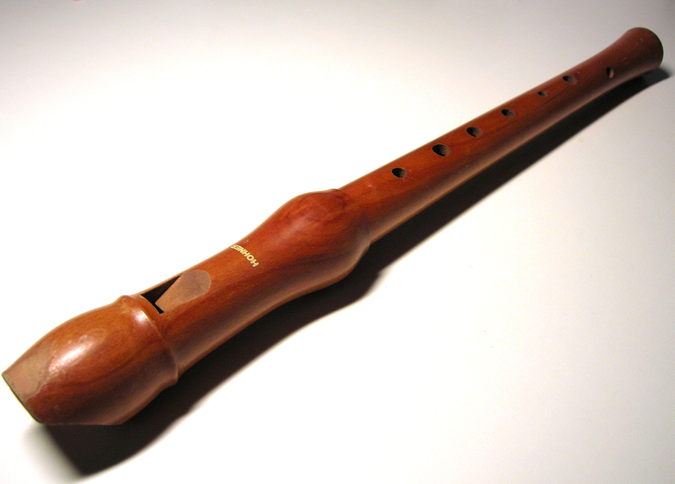 Picture of a recorder made of wood